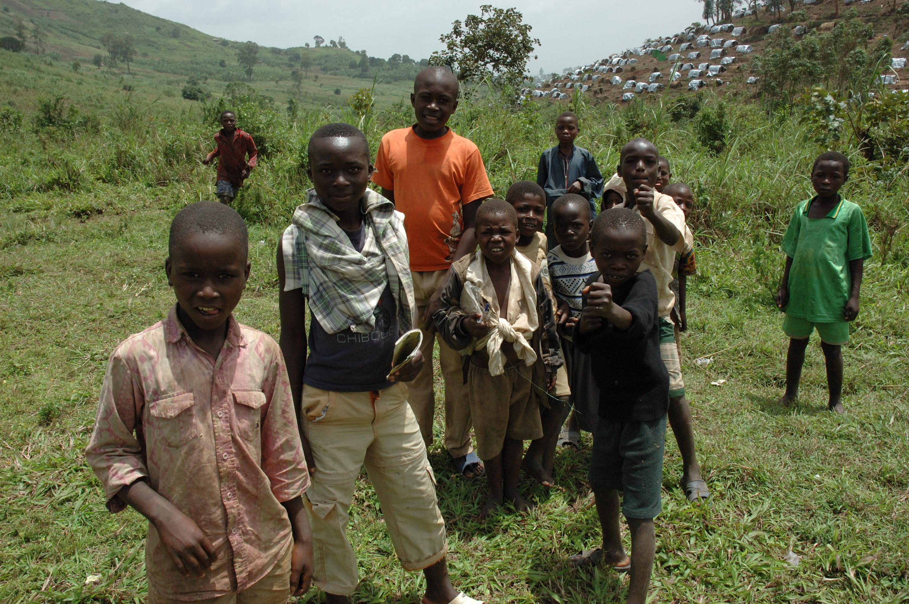 Nyanzale, in the Masisi, is about 150 km north and 6 hours drive from Goma. A small town the population has more than doubled with the arrival of 20,000 people displaced from villages up to a days walk away. They fled in January out of fear of fighting between the rebels of the Forces Démocratiques pour la Libération du Rwanda and Forces Armées de la République Démocratique du Congo now dominated by Laurent N’Kunda’s soldiers. They are also avoiding armed bandits that live in the bush. Armed banditry is a growing problem. Unemployed soldiers and a surplus of small arms from years of fighting are a bad mix. UNICEF with our implementing partner Solidarités has a stand by arrangement to respond to such rapid short term displacements. We call it the Rapid Response Mechanism. UNICEF stock piles with our partners plastic sheeting, jerry cans, cooking sets and clothing. When a displacement occurs a team goes out to assess and then provide support. Solidarités had with the community built latrines, a water source and a school. At the same time the World Food Programme generally provides a food distribution. In Nyanzale this was done by WFPs partner Caritas. The camps are quiet in the day as the people go back to their villages to work their fields, leaving their children in the relative safety of the camp. Walking through the camp I met a child who I knew from one of the Transition Centres for child soldiers in Goma. He had left the centre without his documents and so was having trouble getting aid. Pernille agreed to talk with Albert the head of SOS Grands Lacs.